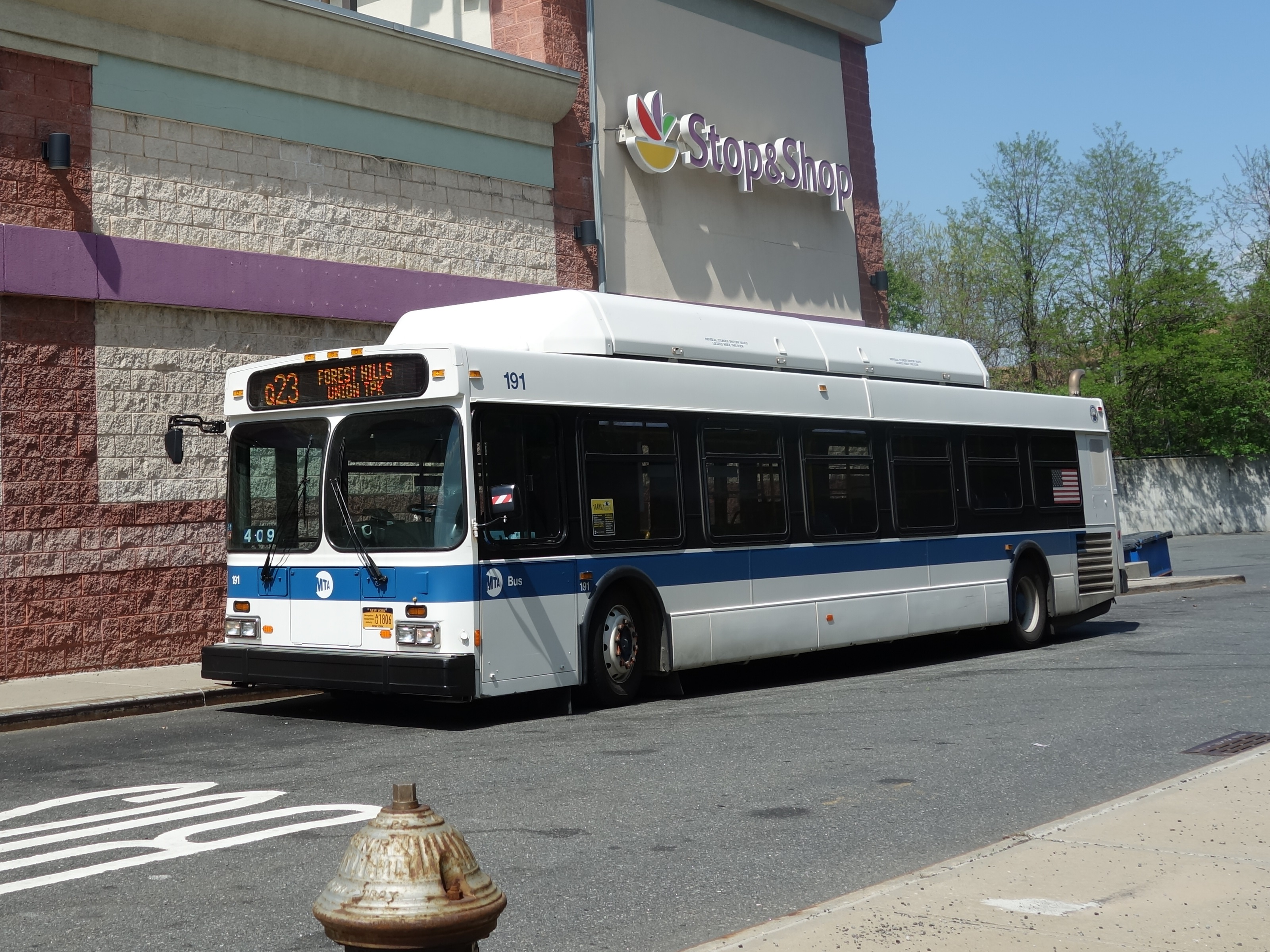 A Q23 bus laying over next to the Stop & Shop on the north side of Union Turnpike, across from Forest View Crescent apartments in Forest Hills / Forest Park / Glendale, Queens.